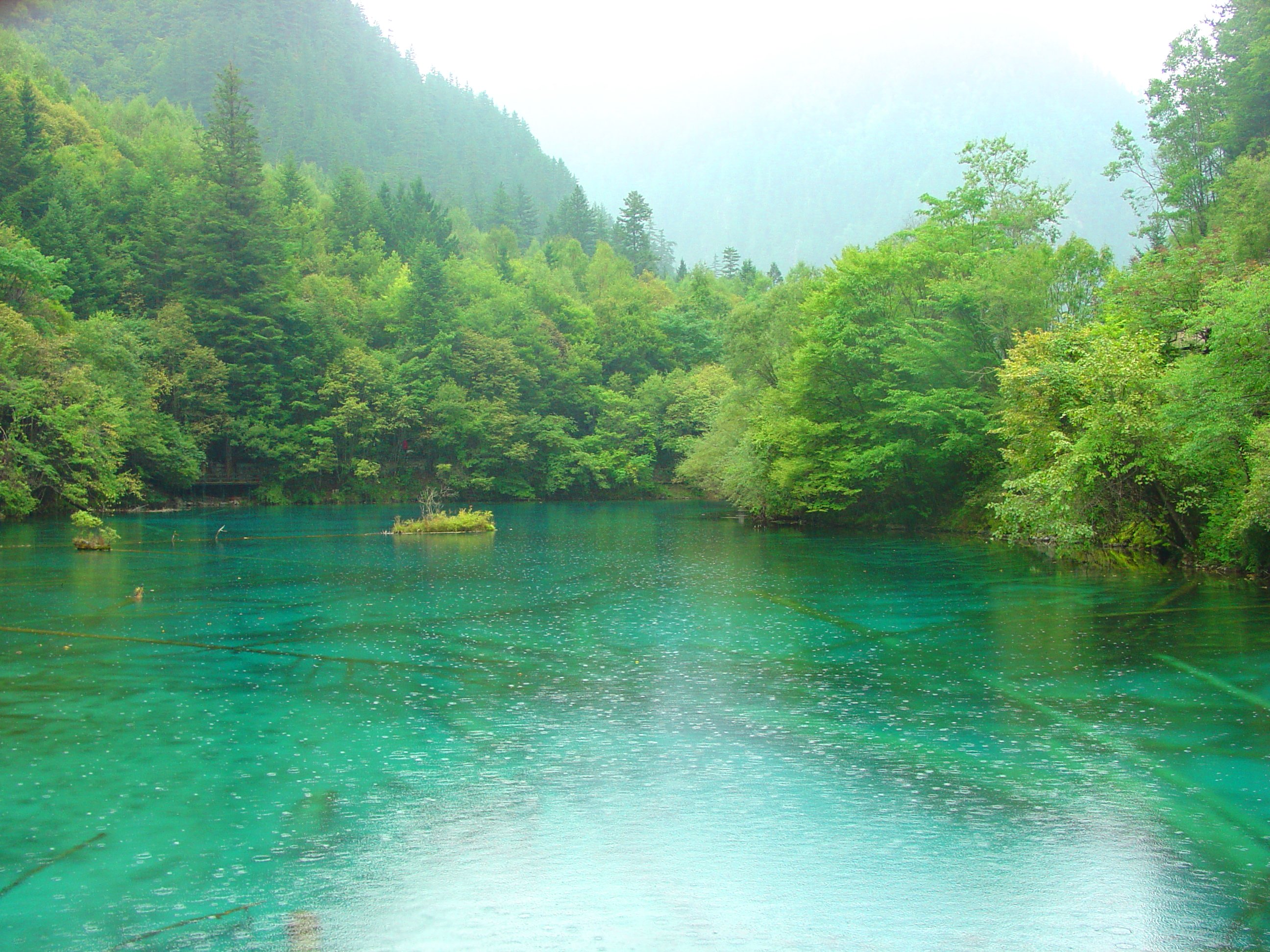 Rain at Tiger lake. Tiger lake during a rainstorm in Jiuzhaigou valley - Sechuan province China, Jiuzhaigou.